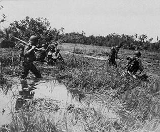 Units of 1. Cavalry Division on Leyte during World War 2